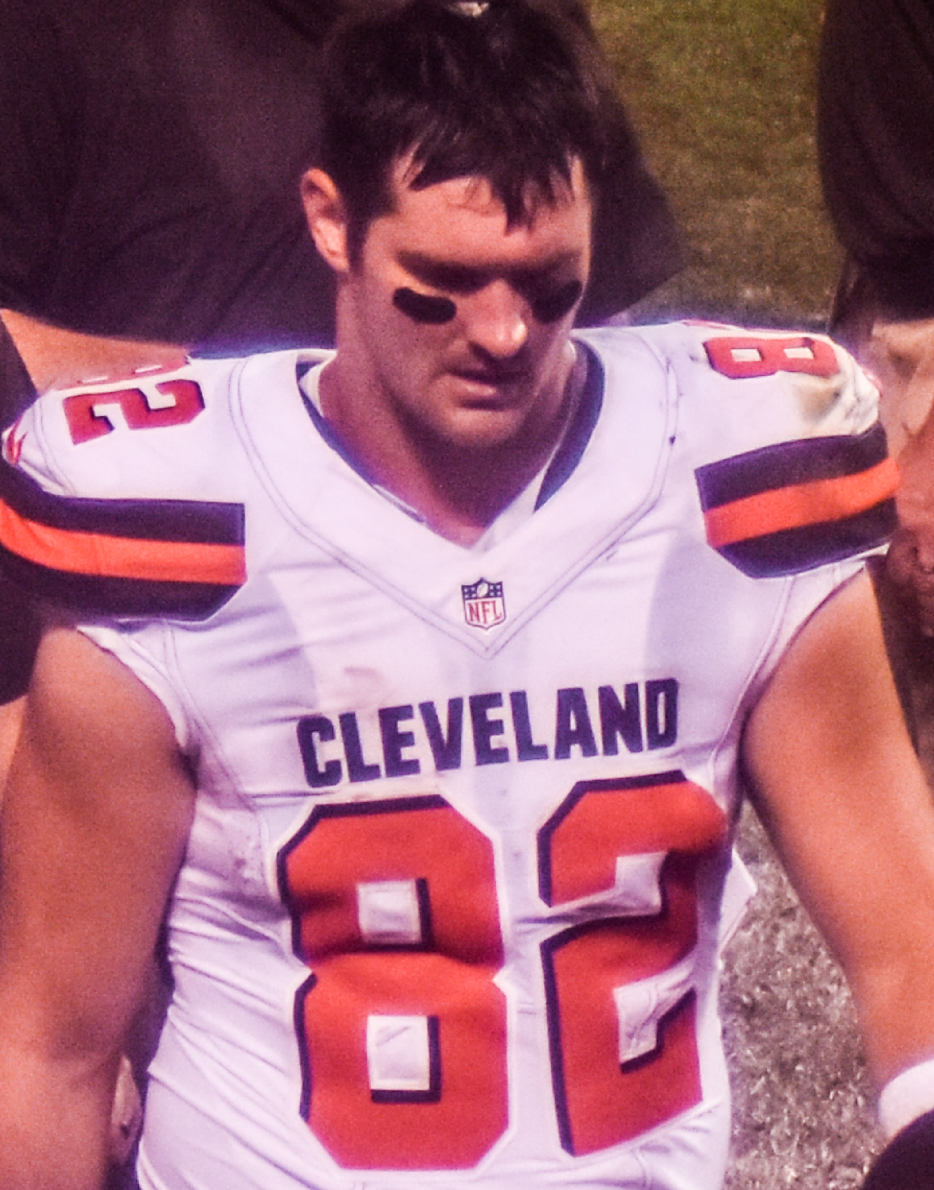 2016 preseason